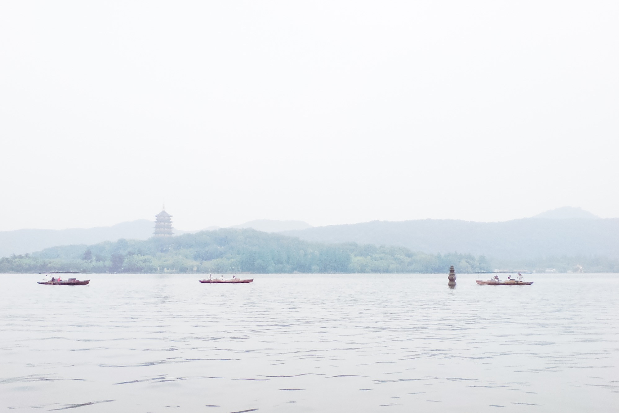 Three Pools Mirroring the Moon in West Lake, Hangzhou, China.